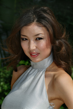 Miss Mongolia 2007, Oyungerel Gankhuyag in Miss World 2007, Sanya, China